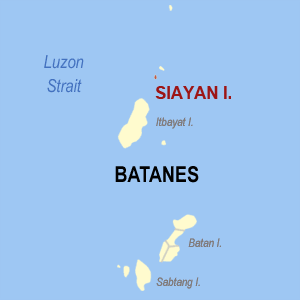 Map of Batanes showing the location of Uyugan